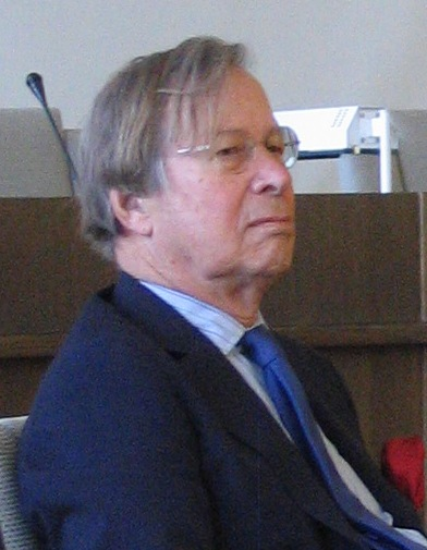 American philosopher and scholar of constitutional law Ronald Dworkin (born 11 December 1931).